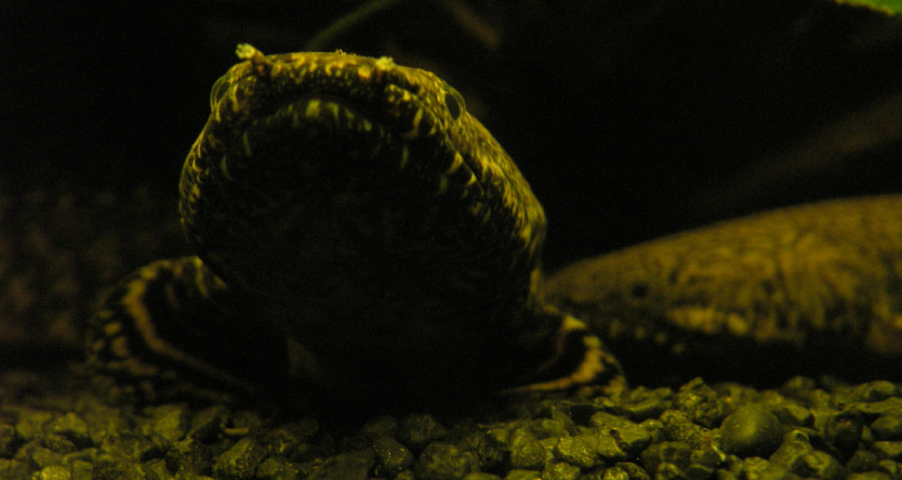 Polypterus ornatipinnis